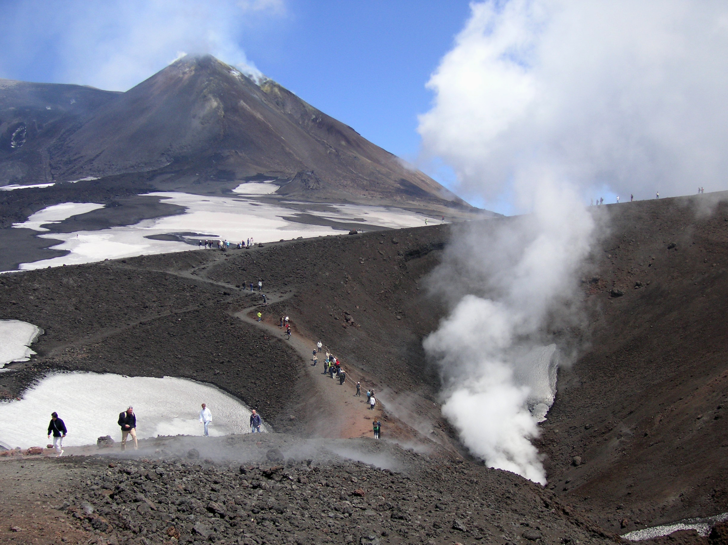 Peak of Etna, Sicily